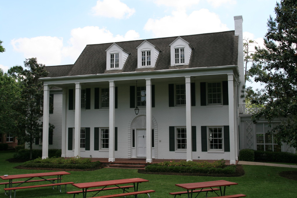 Duchesne Academy White House — at Duchesne Academy of the Sacred Heart in Houston, Texas. This is actually a replica of the original academy's White House, which was demolished to facilitate the extension of a nearby street. When the school was founded, classes were held in the original White House. The replica is the residence of several of the school's Society of the Sacred Heart Sisters.